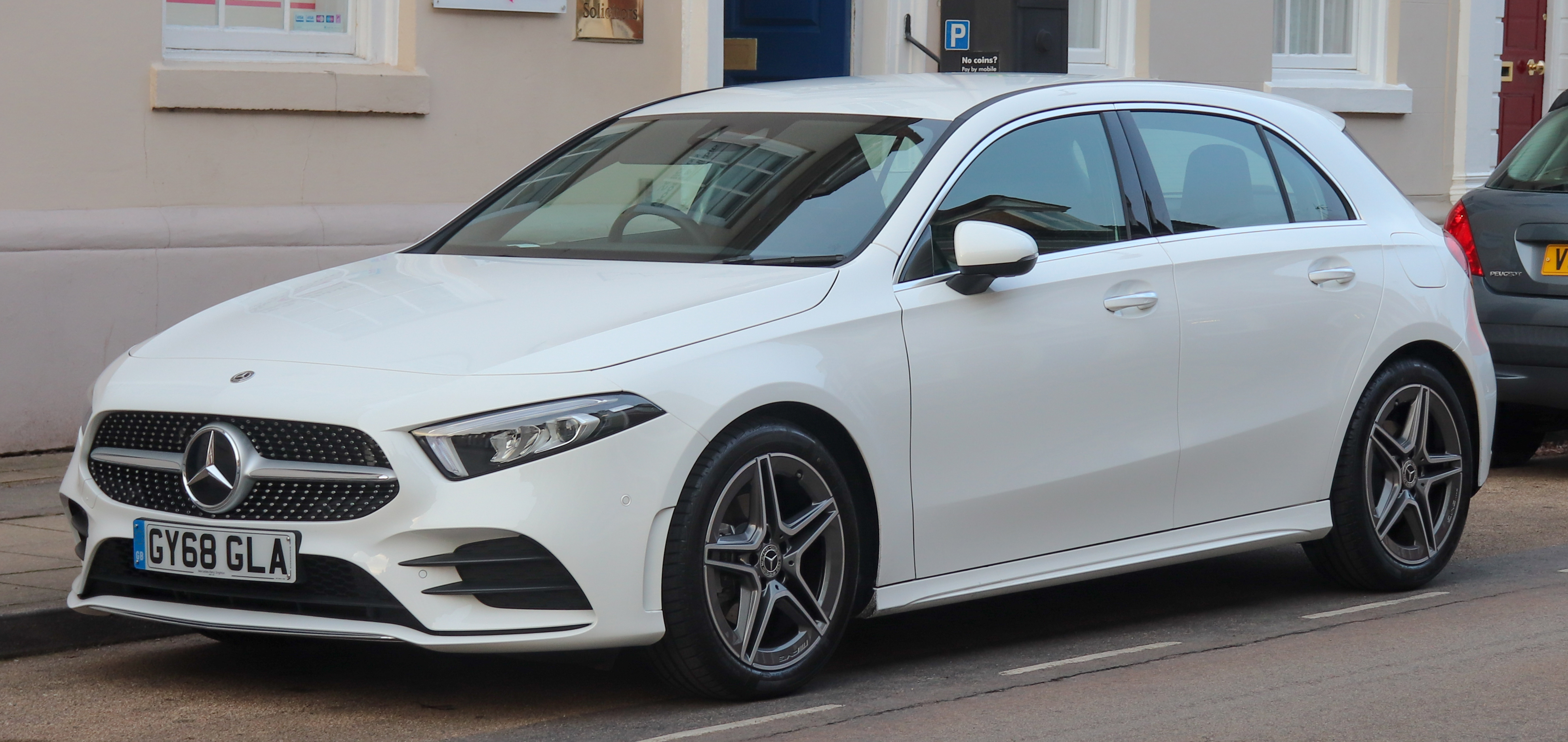 2018 Mercedes-Benz A200 AMG Line Premium Automatic 1.3 Front Taken in Warwick